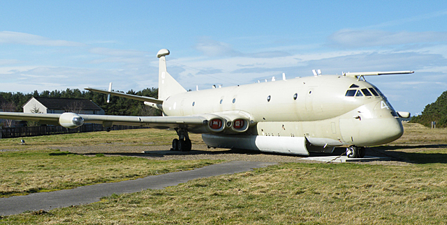 Nimrod